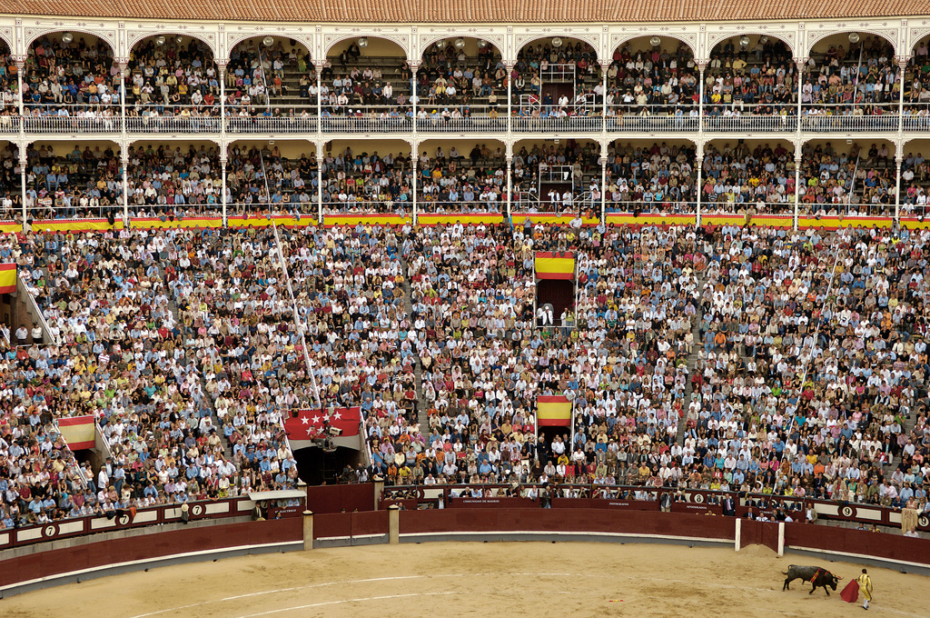 Bullfight in Las Ventas This photograph can be used for publications, including this copyright statement: “©PromoMadrid, author Max Alexander”. Esta fotografía puede usarse en publicaciones, incluyendo la declaración “©PromoMadrid, autor Max Alexander”.